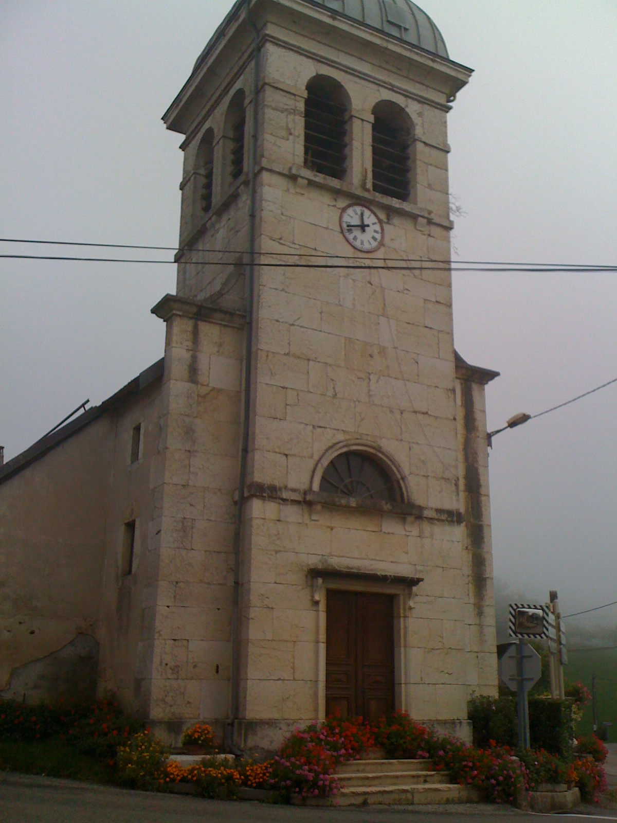 Church at Brenaz, Ain, France